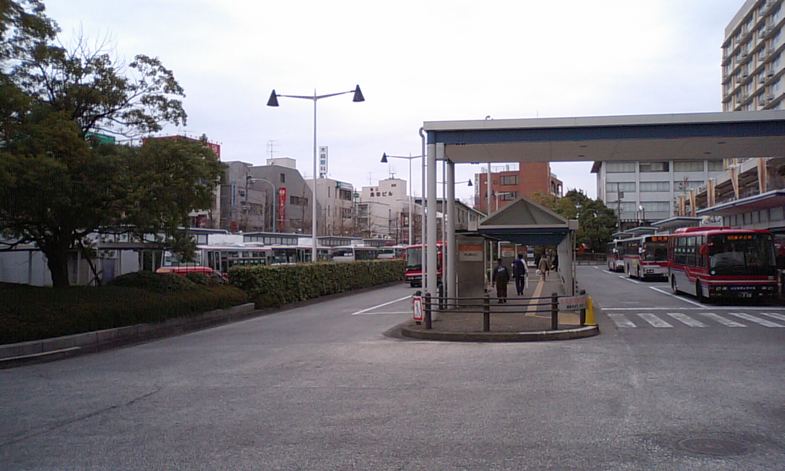 Bus turminal of Aobadai Station.